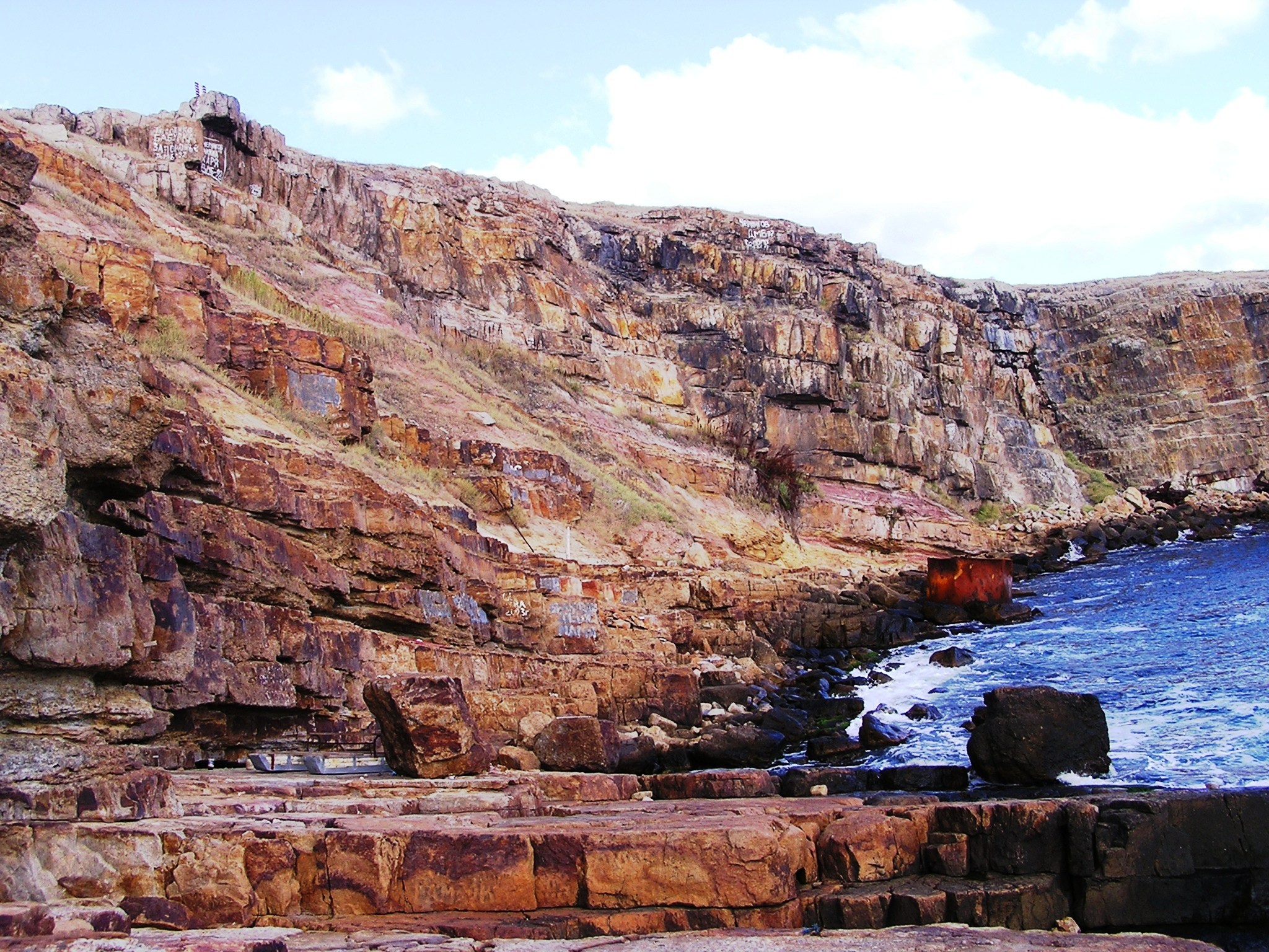 Coast of Snake Island